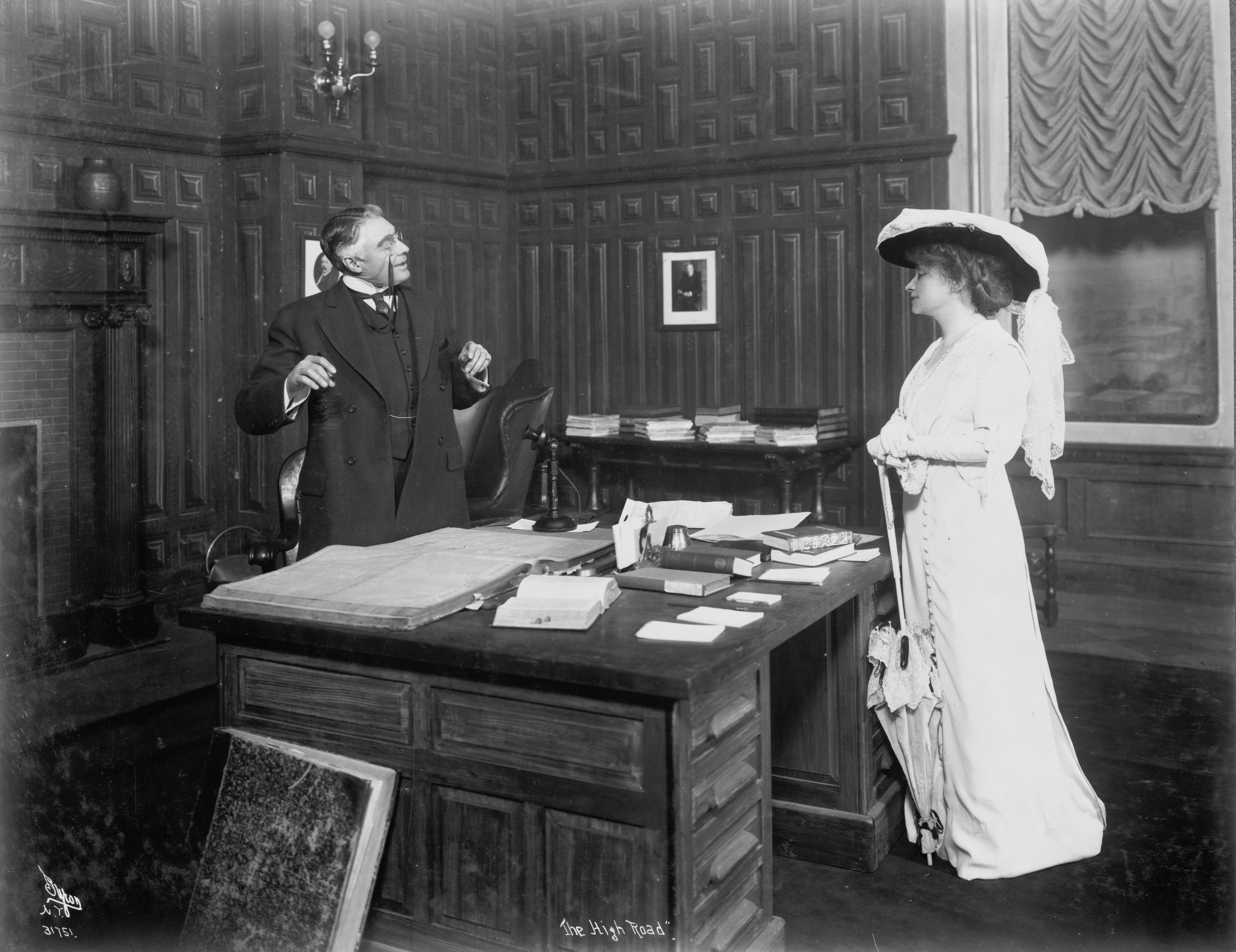 A scene from the play "The High Road" by American playwright Edward Sheldon (1886-1946), in which a male character, played by Frederick Perry, speaks across a desk to a female character, played by Minnie Maddern Fiske. Photographed by Joseph Byron (1847-1923).